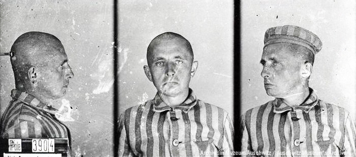 Stanisław Dubois (1901-1942) – Polish socialist politician, journalist, victim of Nazi-German concentration camp KL-Auschwitz